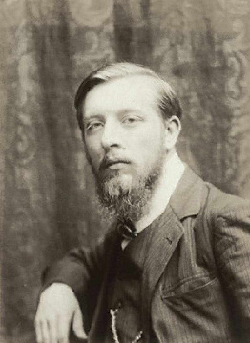 Belgian author Jan van Nijlen (1884-1965)